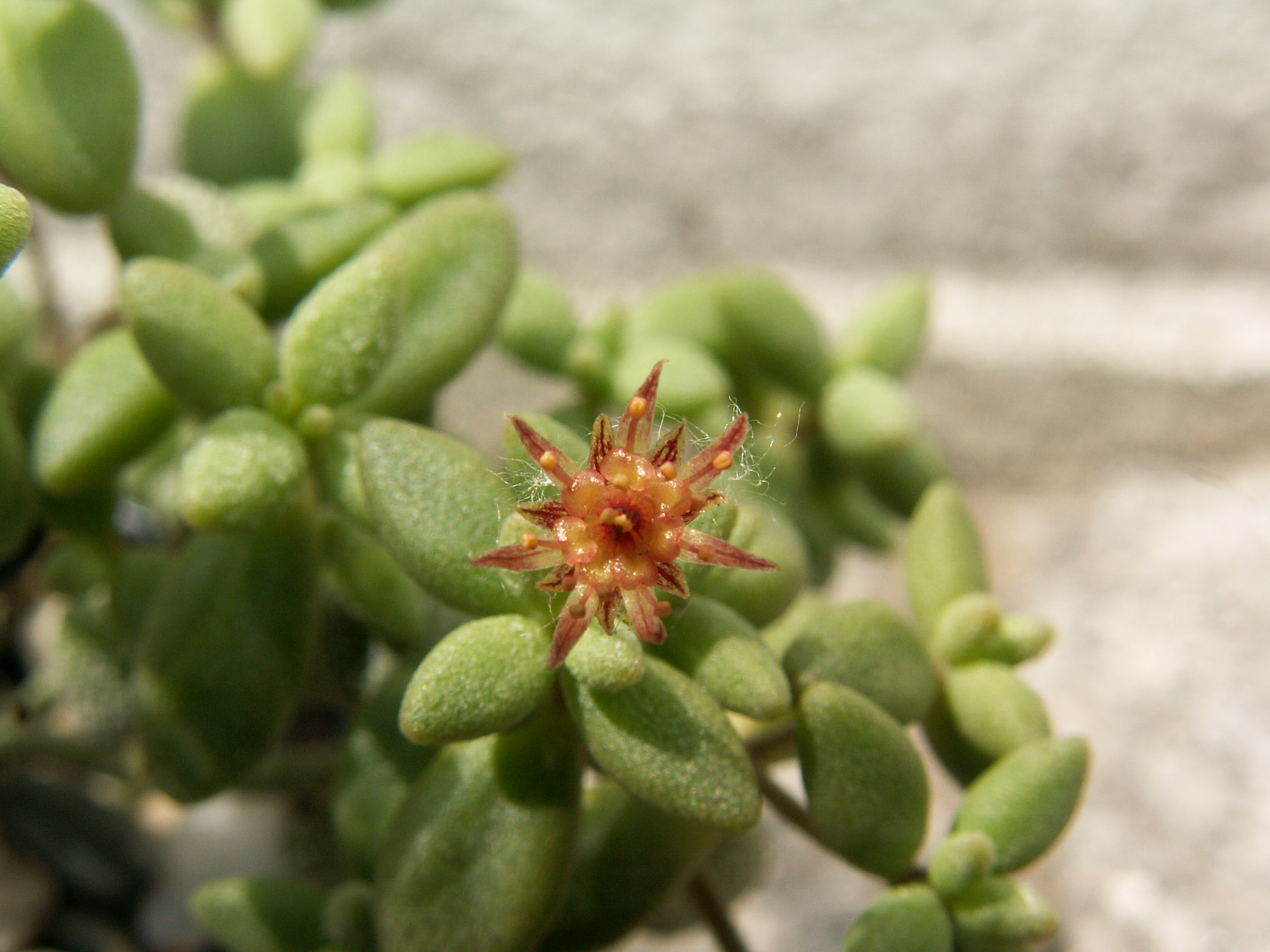 Monanthes laxiflora